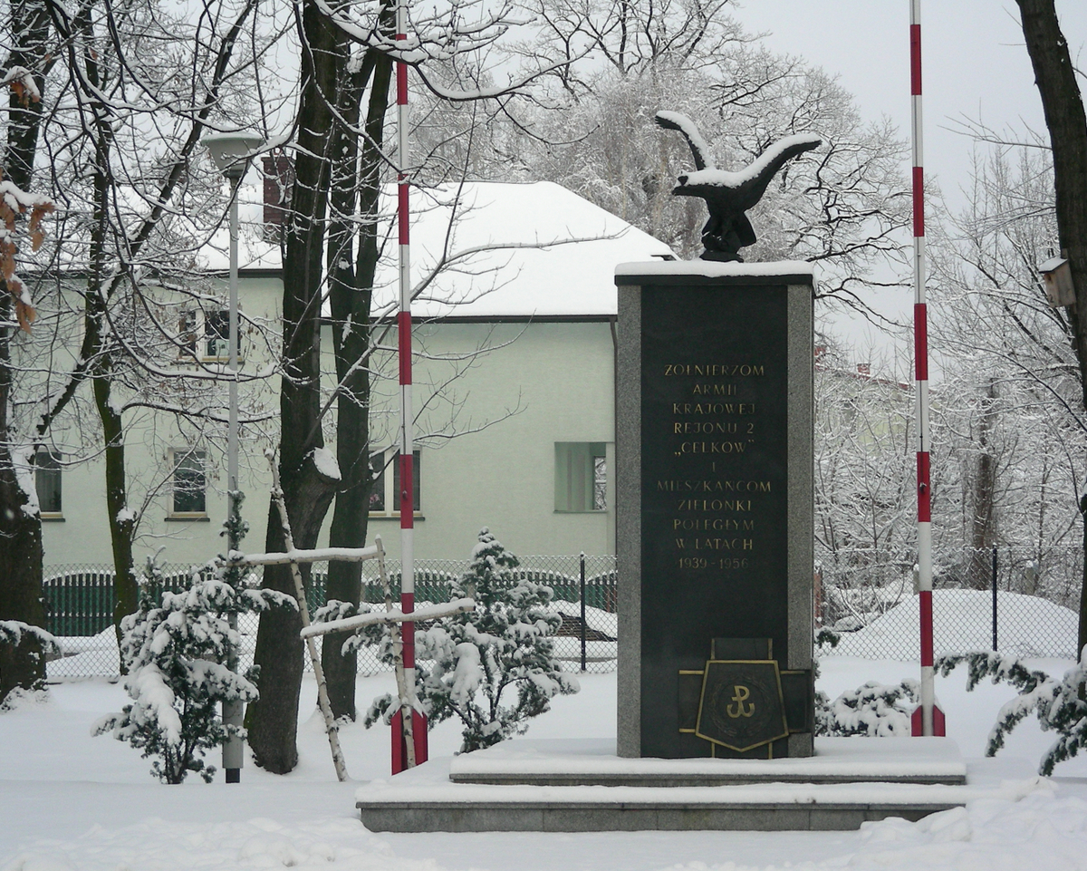 The monument of soldiers of the Armia Krajowa in Zielonka